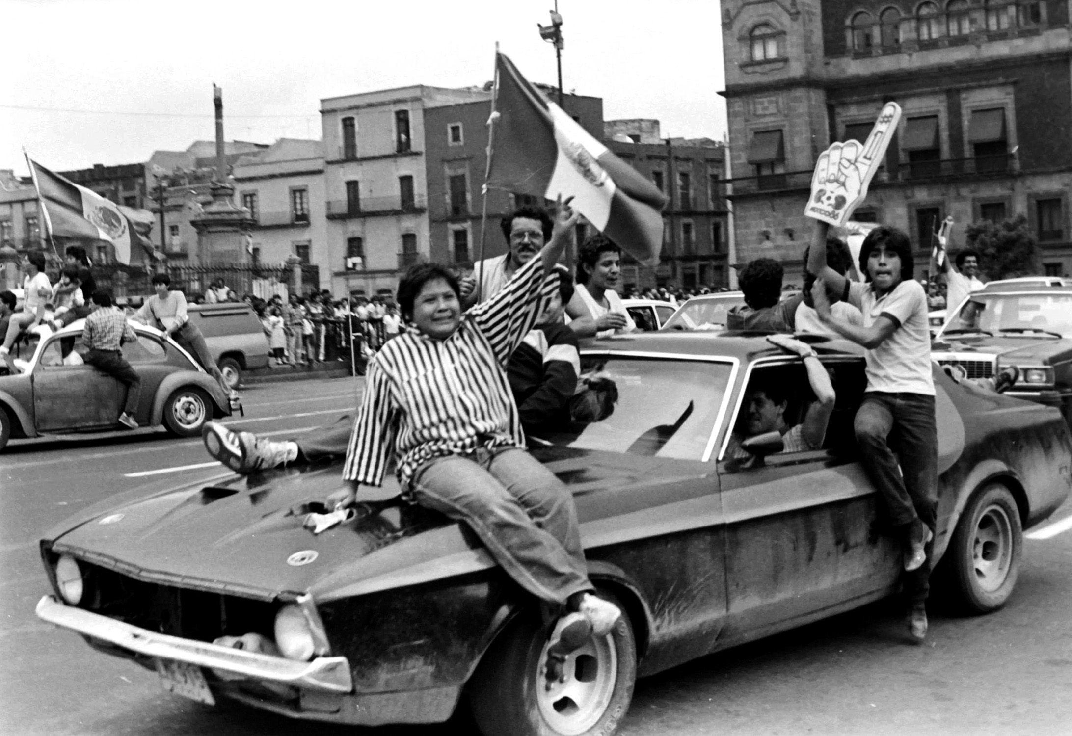 Mexican fans celebrating, 1986 FIFA World Cup. Mexico City, Mexico.